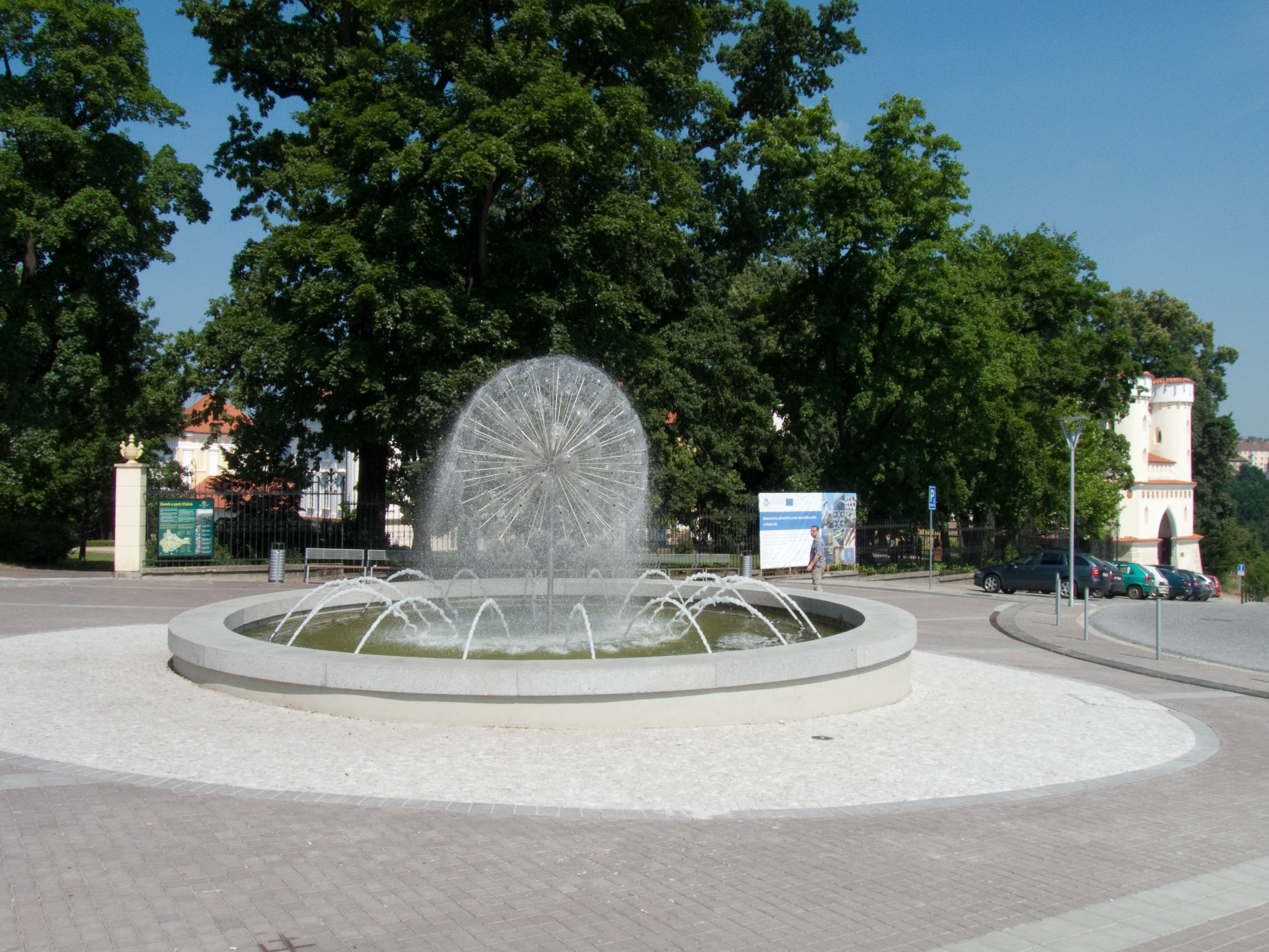 Fountain in Husovo Square, Vlašim, Benešov district, Czech Republic